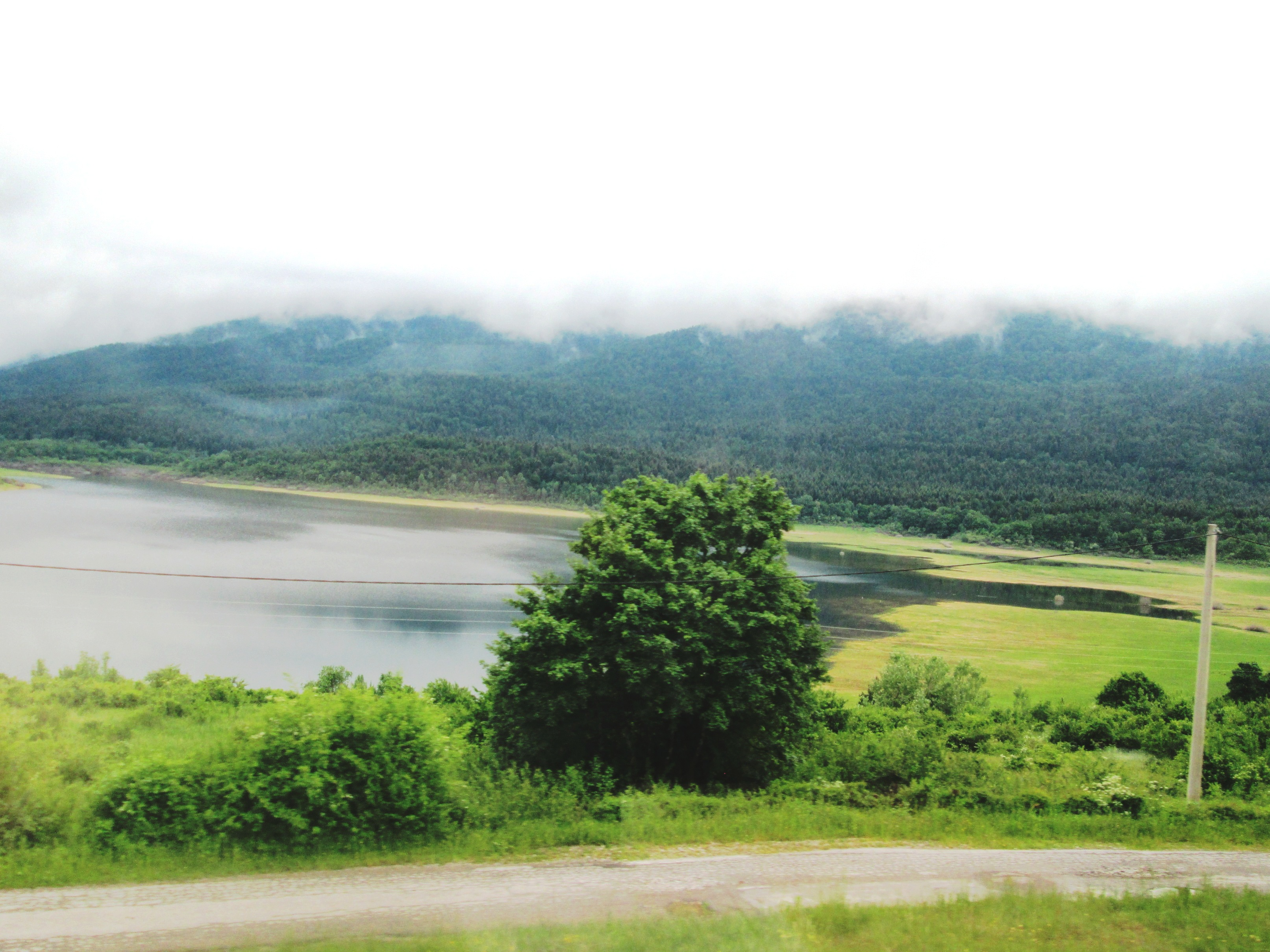 Lake Blacansko in Croatia